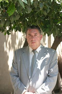 in the margin of the Junta de Andalucia asociation